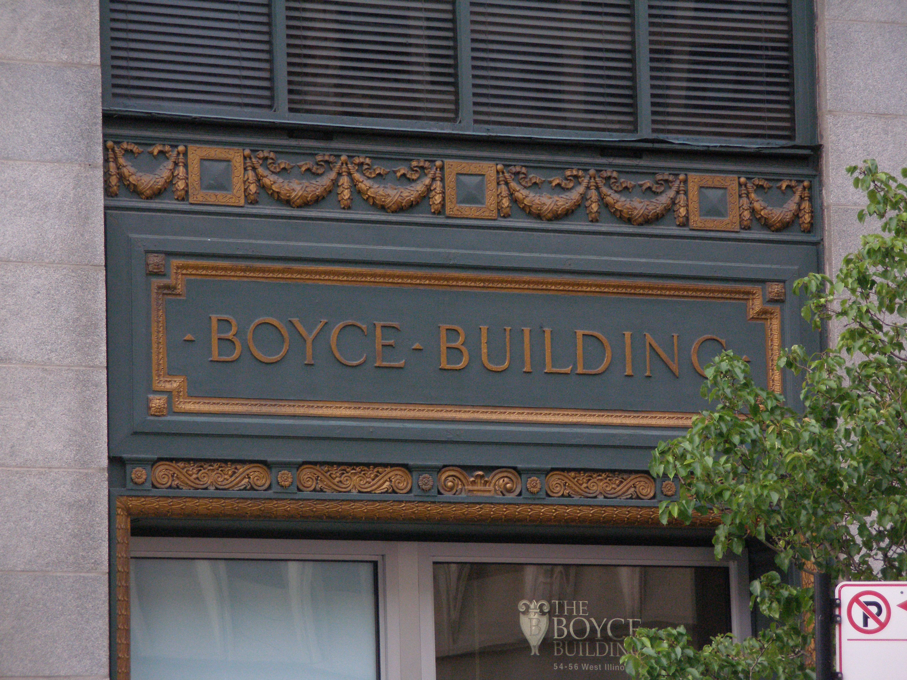 Front entrance to the Boyce Building, 500-510 N. Dearborn, Chicago, IL